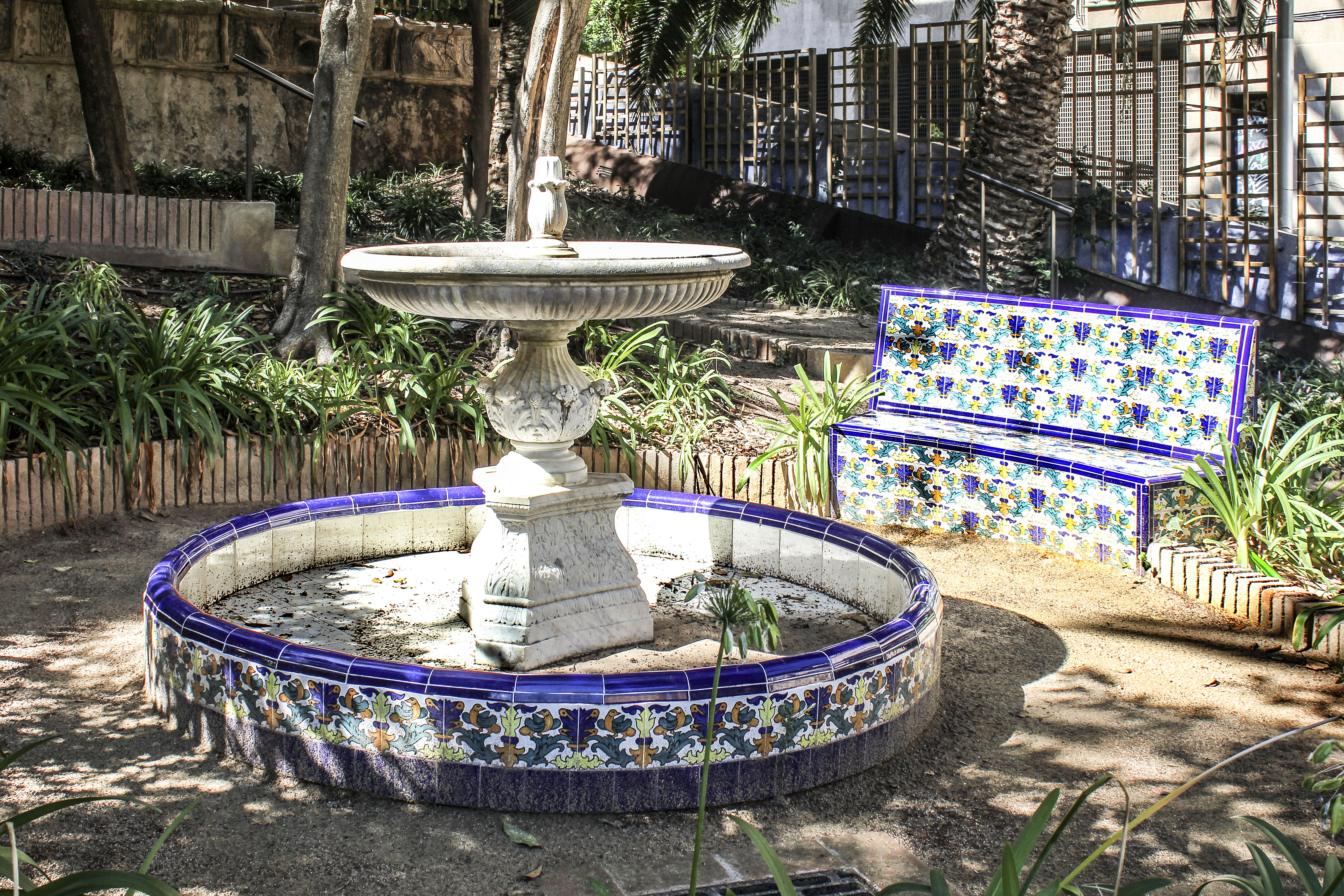 Jardins de Portolà: font amb brollador i banc de ceràmica